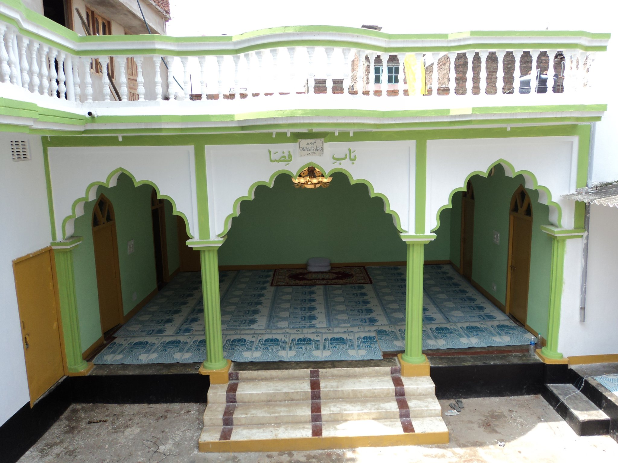 Khanquah Sajjadia Abulolaiya , Shahtoli, Danapur, Patna, Bihar, India. Pin - 801503